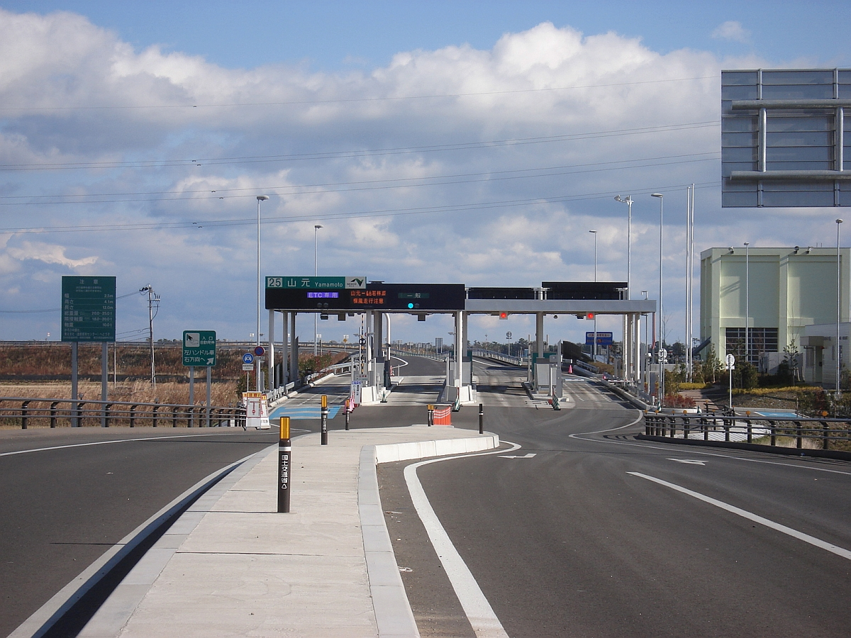 Yamamoto Interchange on the Joban Expressway in Yamamoto Town, Miyagi Prefecture, Japan